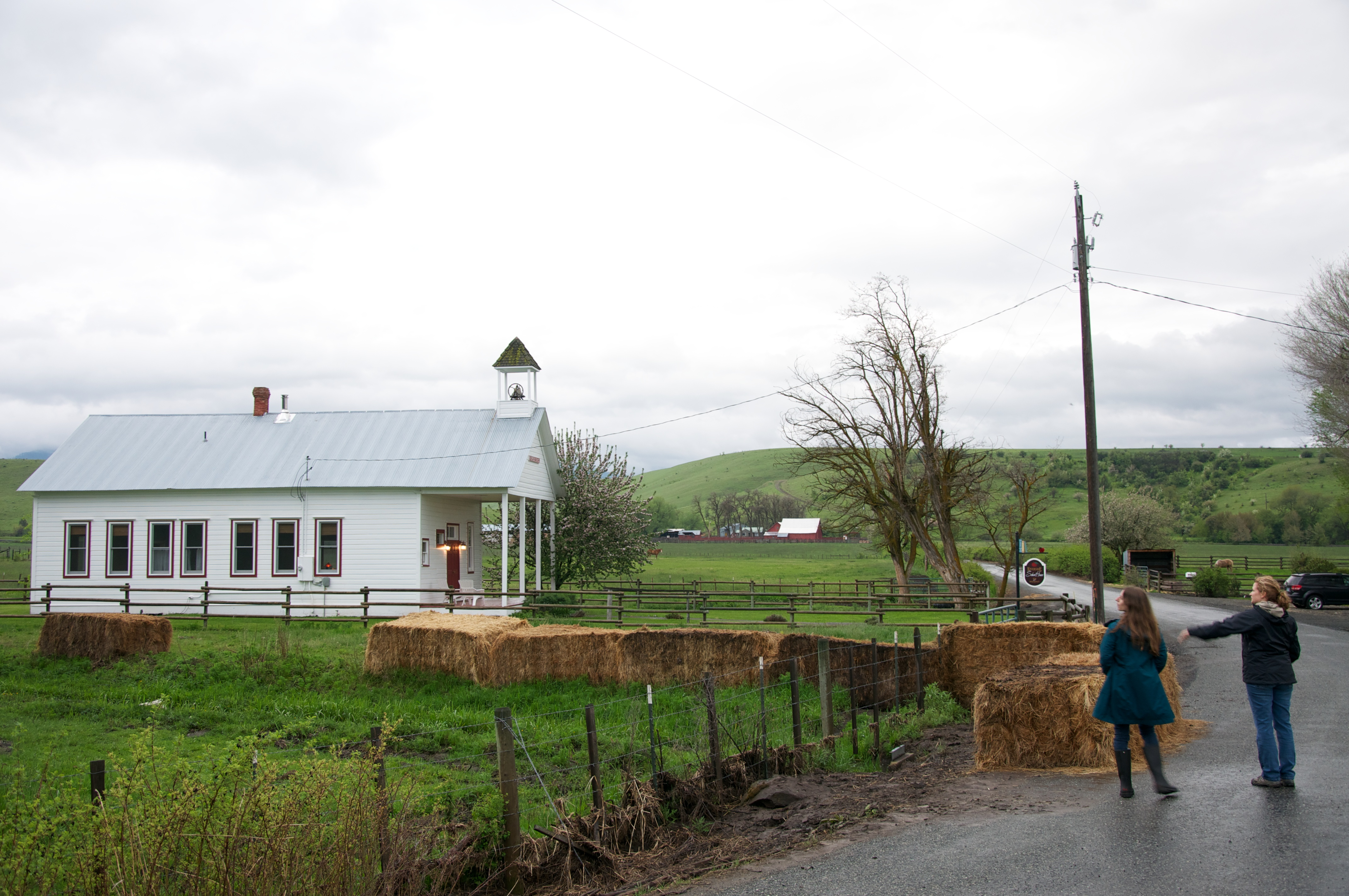 The Riverside Schoolhouse Bed & Breakfast along the John Day River in Prairie City, Grant County, Oregon, United States